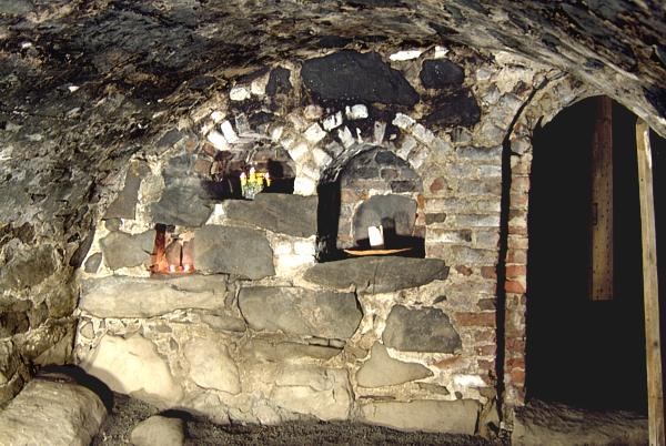 The Cellar of Hirvilahti Manor in Perniö, Finland.